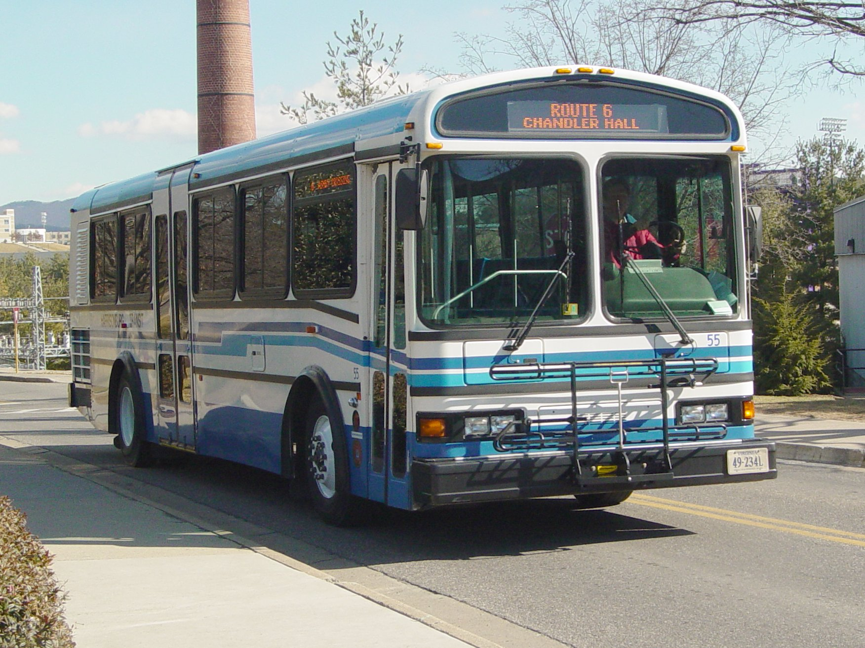 Harrisonburg Transit bus 55, a Thomas-Built high floor bus, at Varner House on the James Madison University campus.